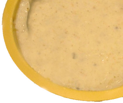 Morinaga Milk Industry Curry Yogurt.